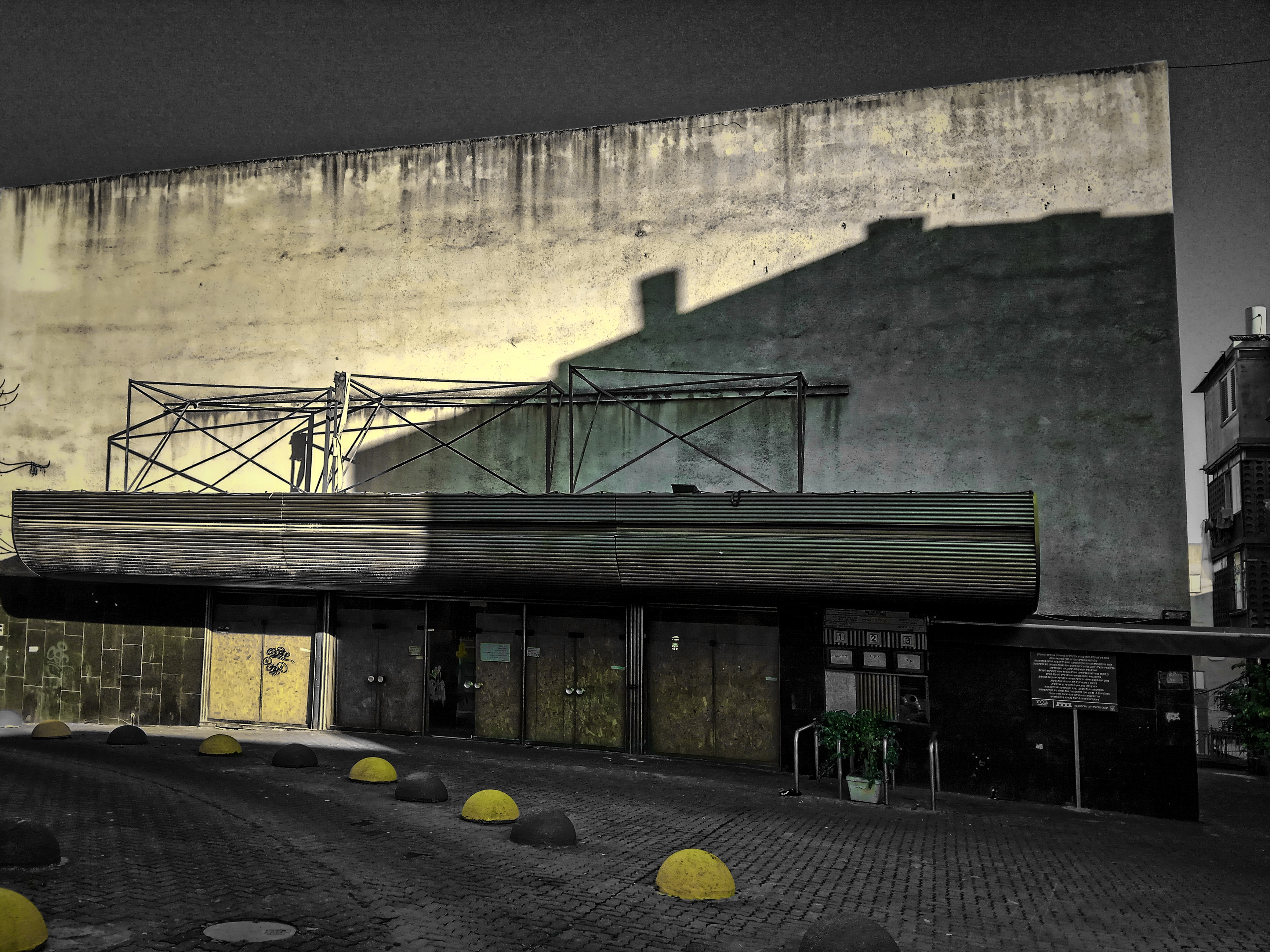 Cinema Heichal in Petach Tikva